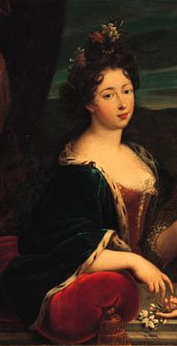 Detail of a portrait of Marie de Lorraine by Nicolas Fouché